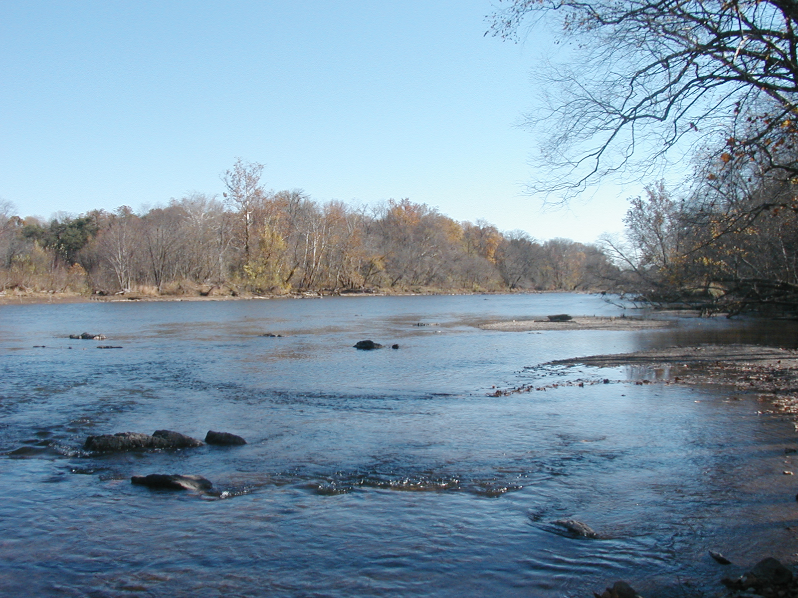 Part of the river downstream from the Manyuchi Dam.